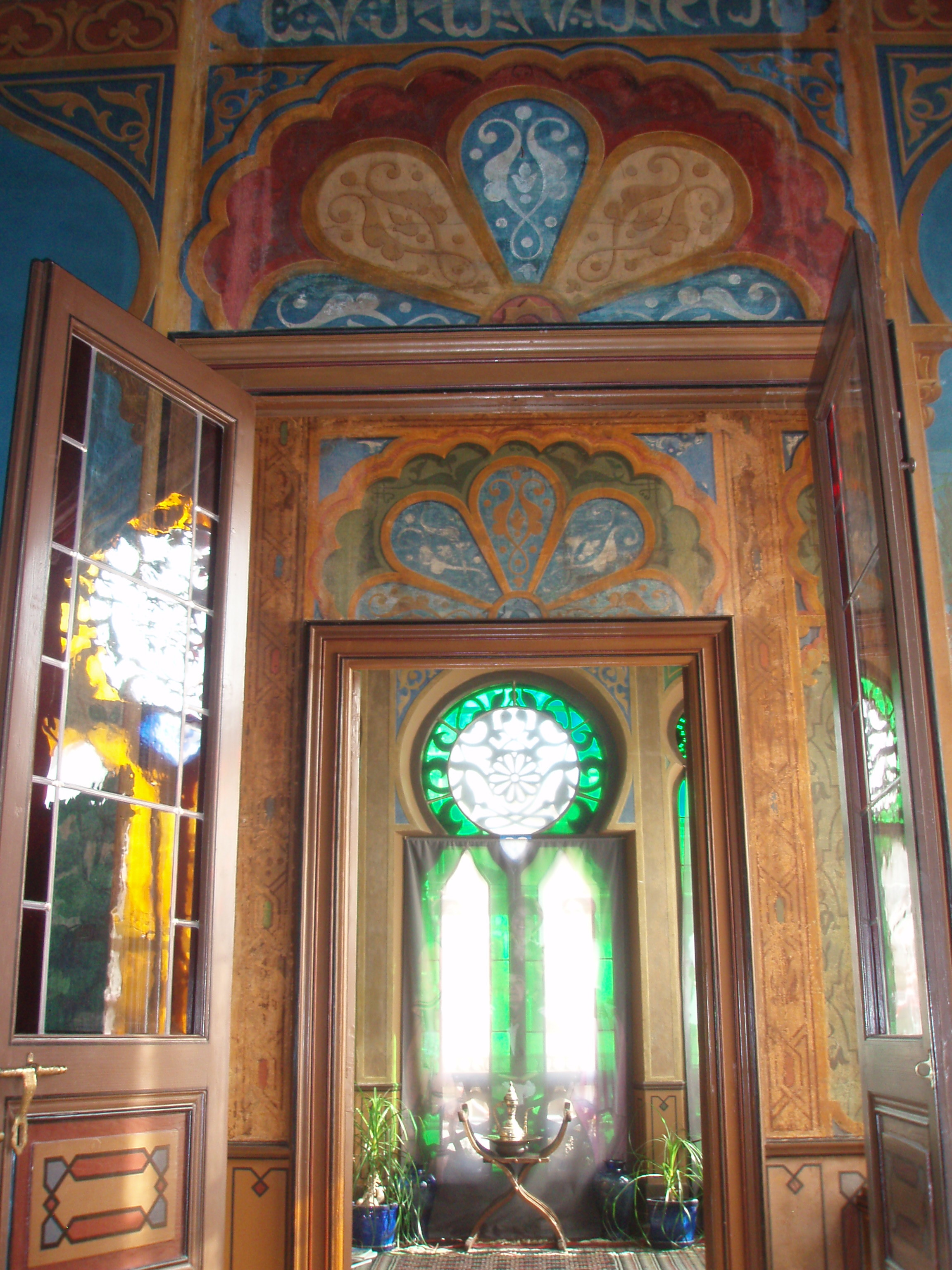 amharic in Casamaures, historical monument in Saint-Martin-le-Vinoux.